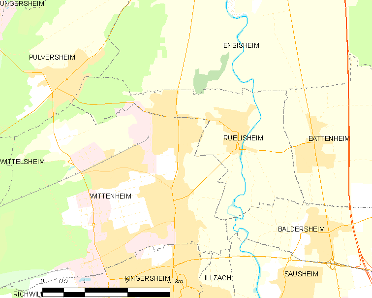 Map of French municipality